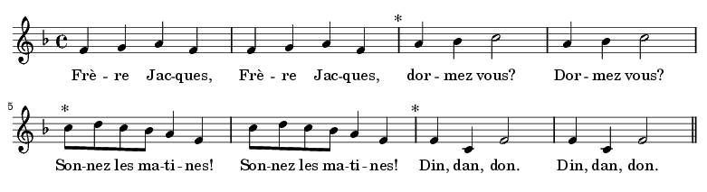 Music for the song "Frère Jacques"